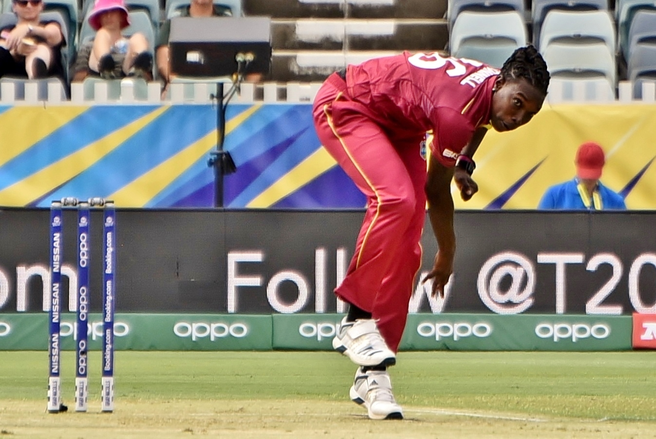 Shamilia Connell bowling for the West Indies against Thailand during their 2020 ICC Women's T20 World Cup match at the WACA Ground in Perth, Australia